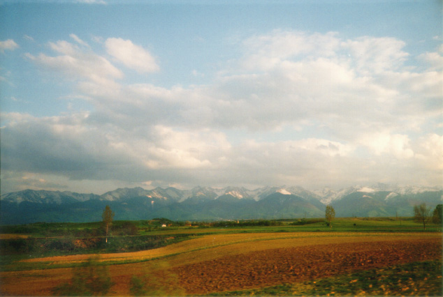 The Făgărași Mountains, viewed from the train en route to Sibiu from Brașov. Afbeelding:Fagarasi gebergte.jpg